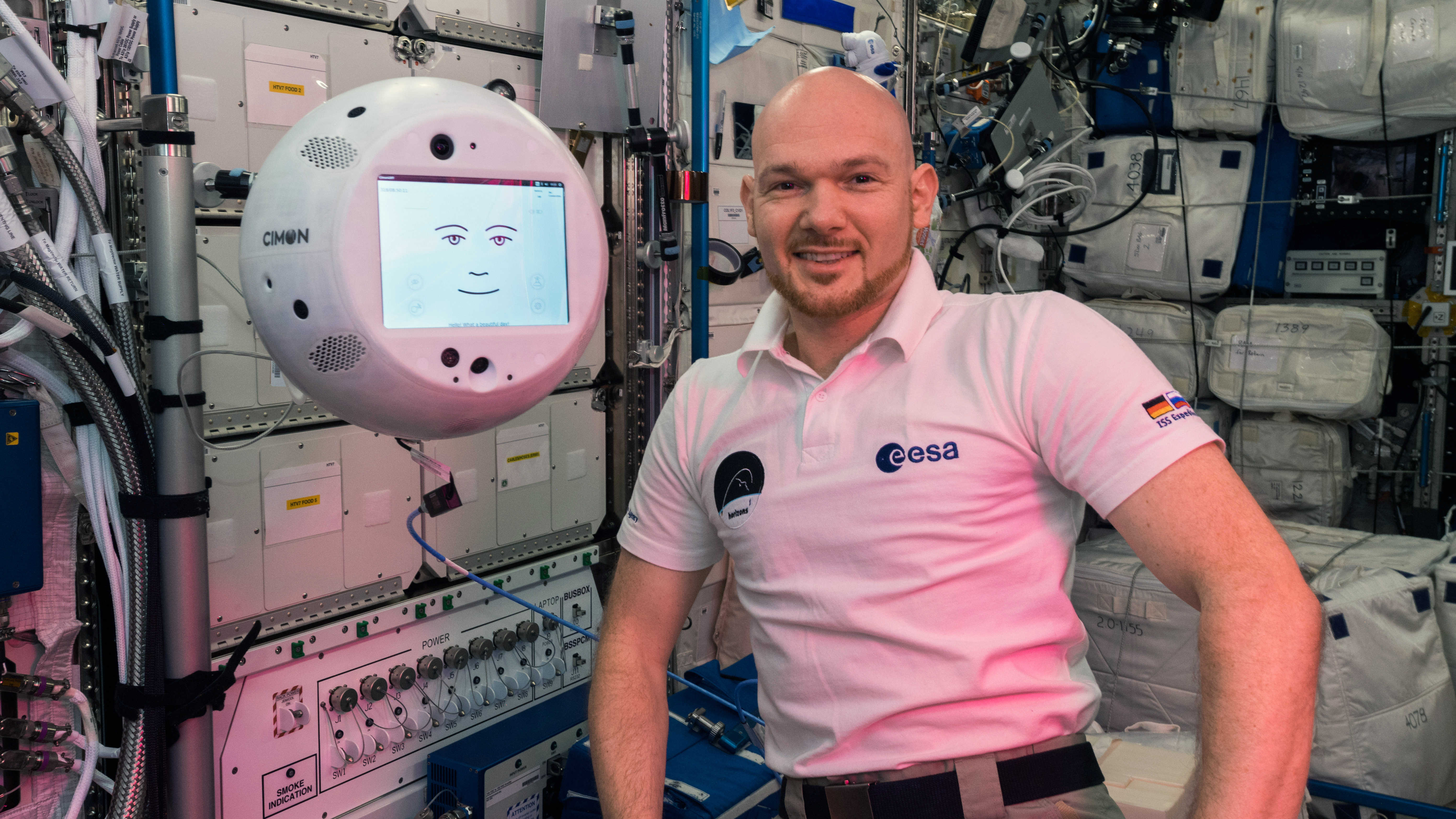 ESA astronaut Alexander Gerst with CIMON, an artificial intelligence helper aboard the station.